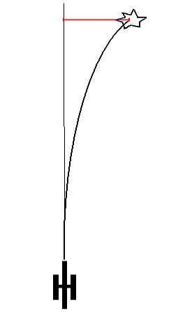 Gyroscopic drift, artillery